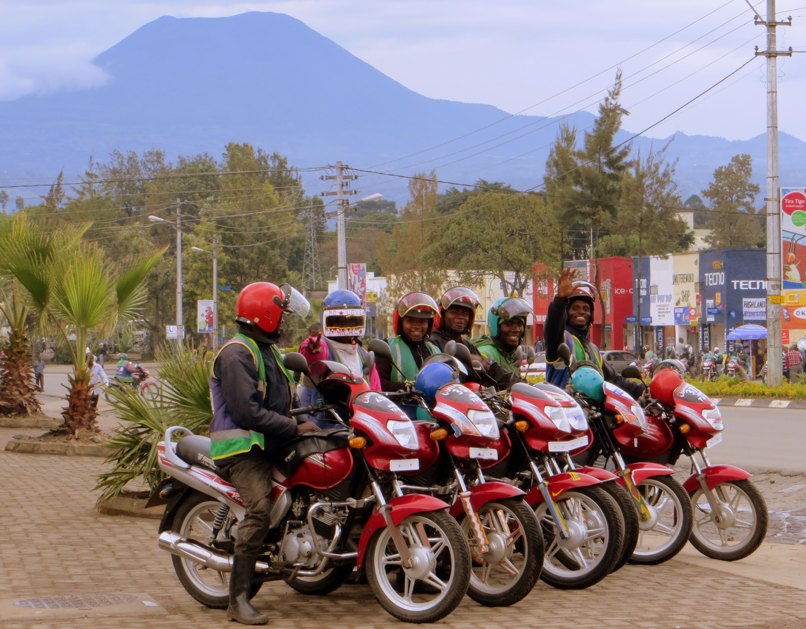 Ruhengeri, Rwanda. Volcano in the background.